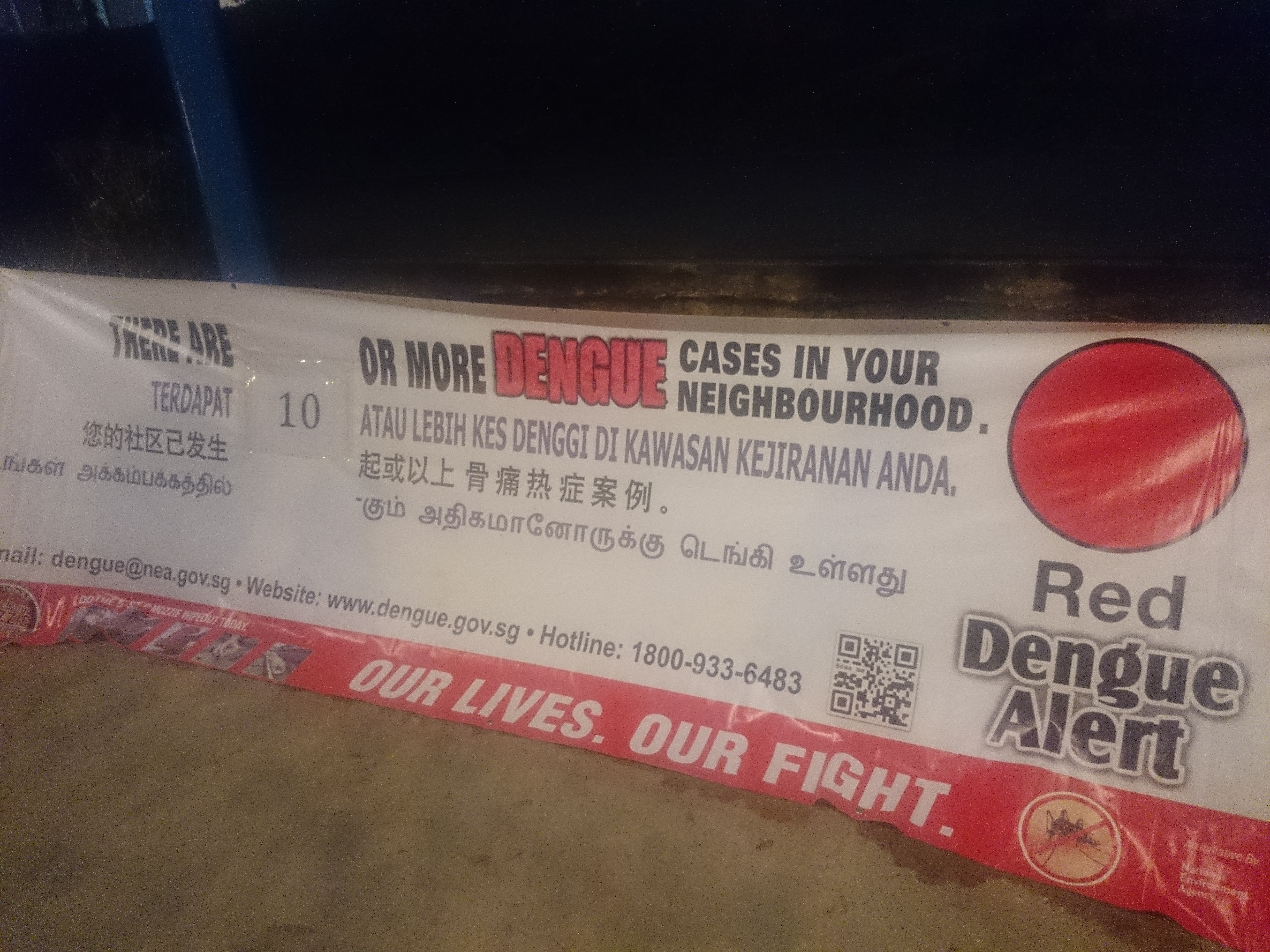 An alert post in Tampines, Singapore.